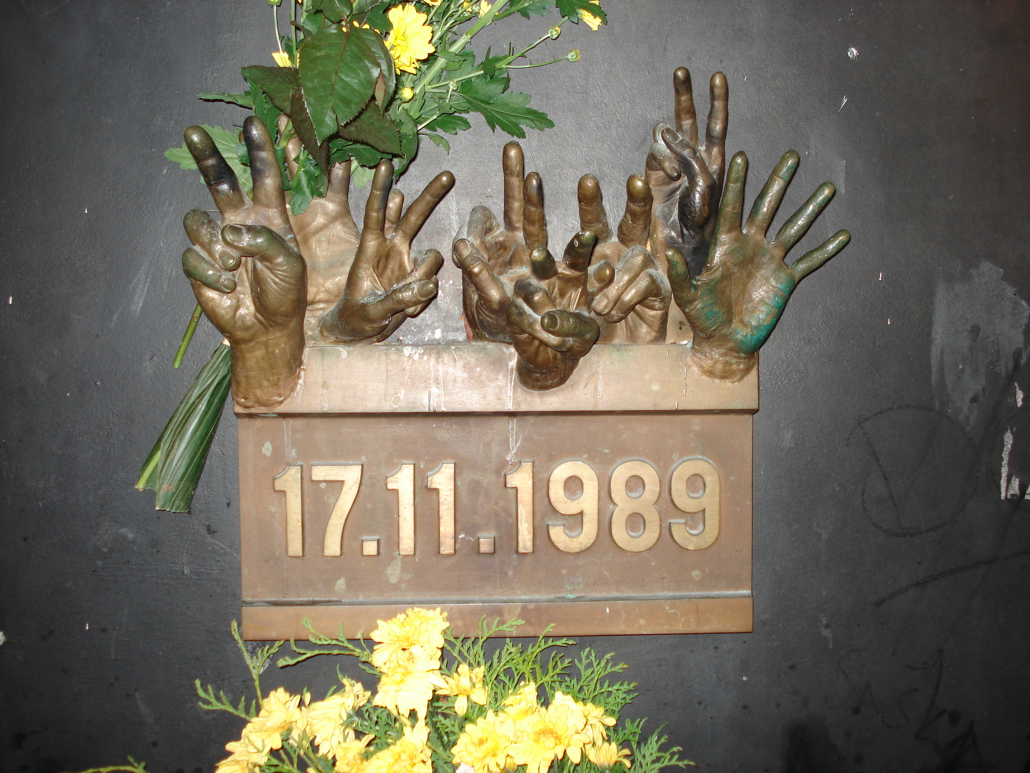 Detail of the Monument to the student manifestations of November 17th in Prague, repressed by the police, they led to the fall of communism in Czechoslovakia.